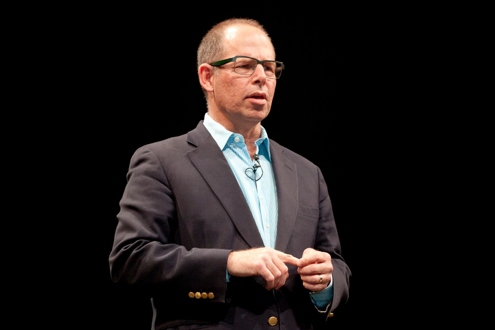 Designer Michael Bierut at TYPO SF 2012.